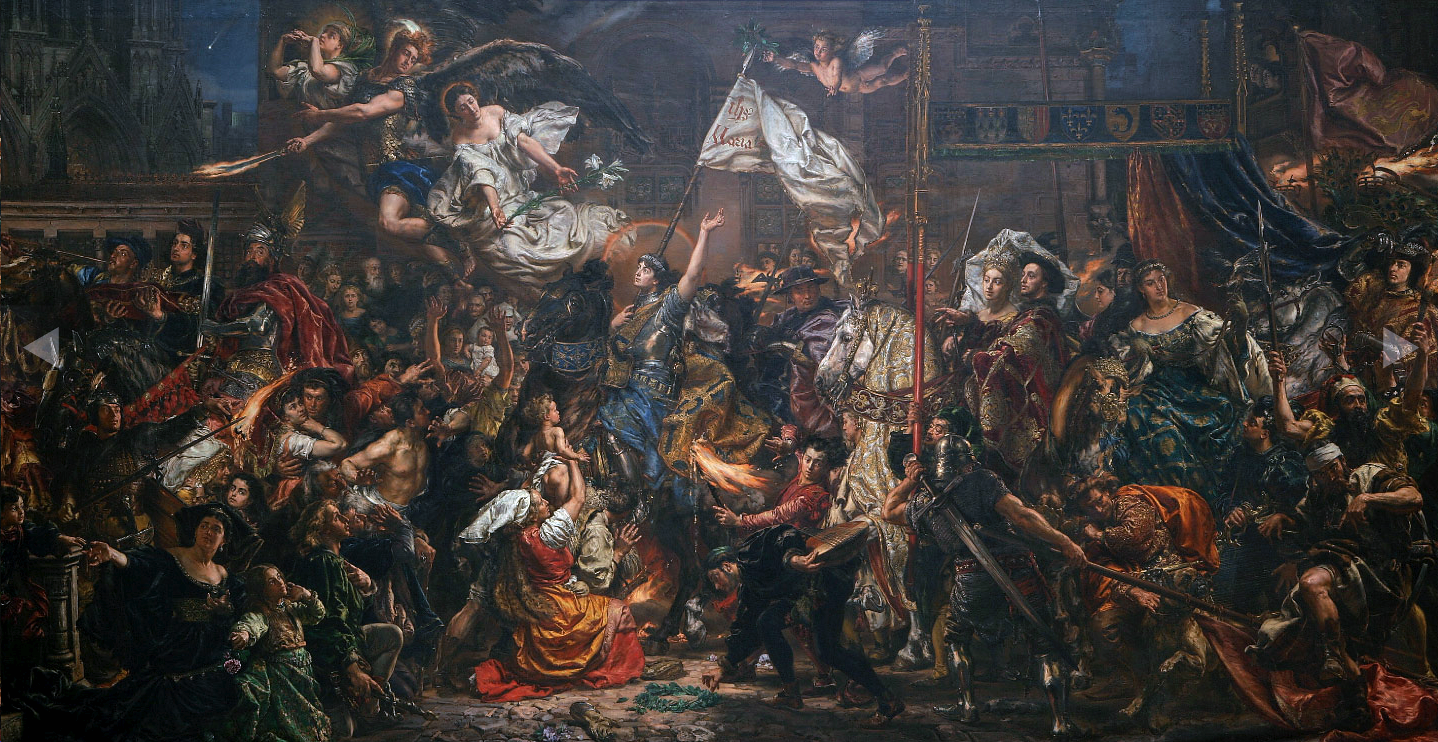 The Maid of Orléans